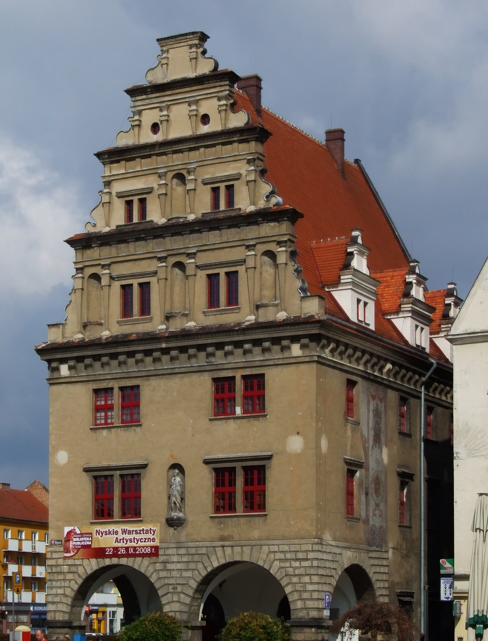 Flat "Dom Wagi Miejskiej" ("Kämmereigebäudes") in Nysa, Silesia